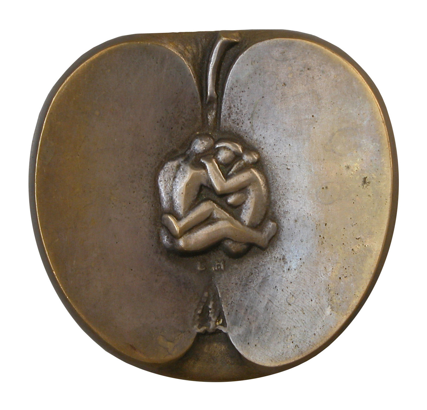 APPLE 1977, brass, 80 mm